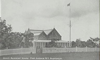 Creator unknown. Black and white image showing the Government Resident House at Port Darwin in the early 1910s. Original print held by the Northern Territory Library as part of the John Robert Jones collection. Photo number: PH0734/0047.